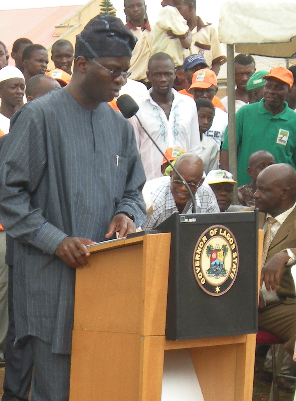 Governor Babatunde Raji Fashola, at the commissioning of Agidingbi Grammar School; in Ikeja, Lagos.